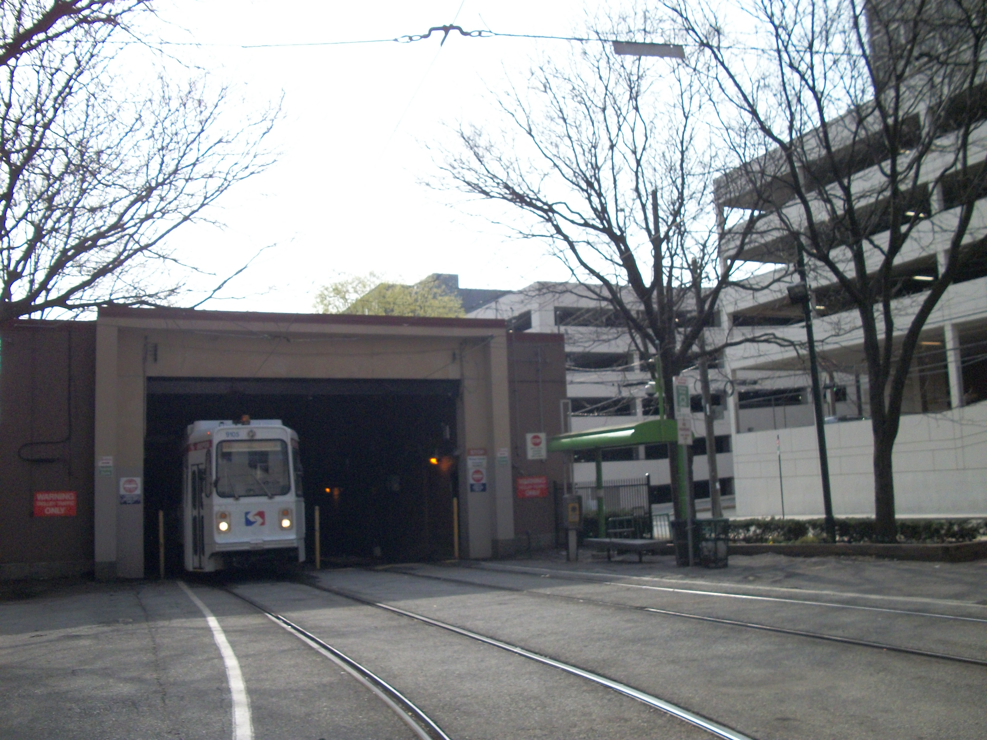 A SEPTA Route 10 trolley car emerges from the 36th Street Portal.